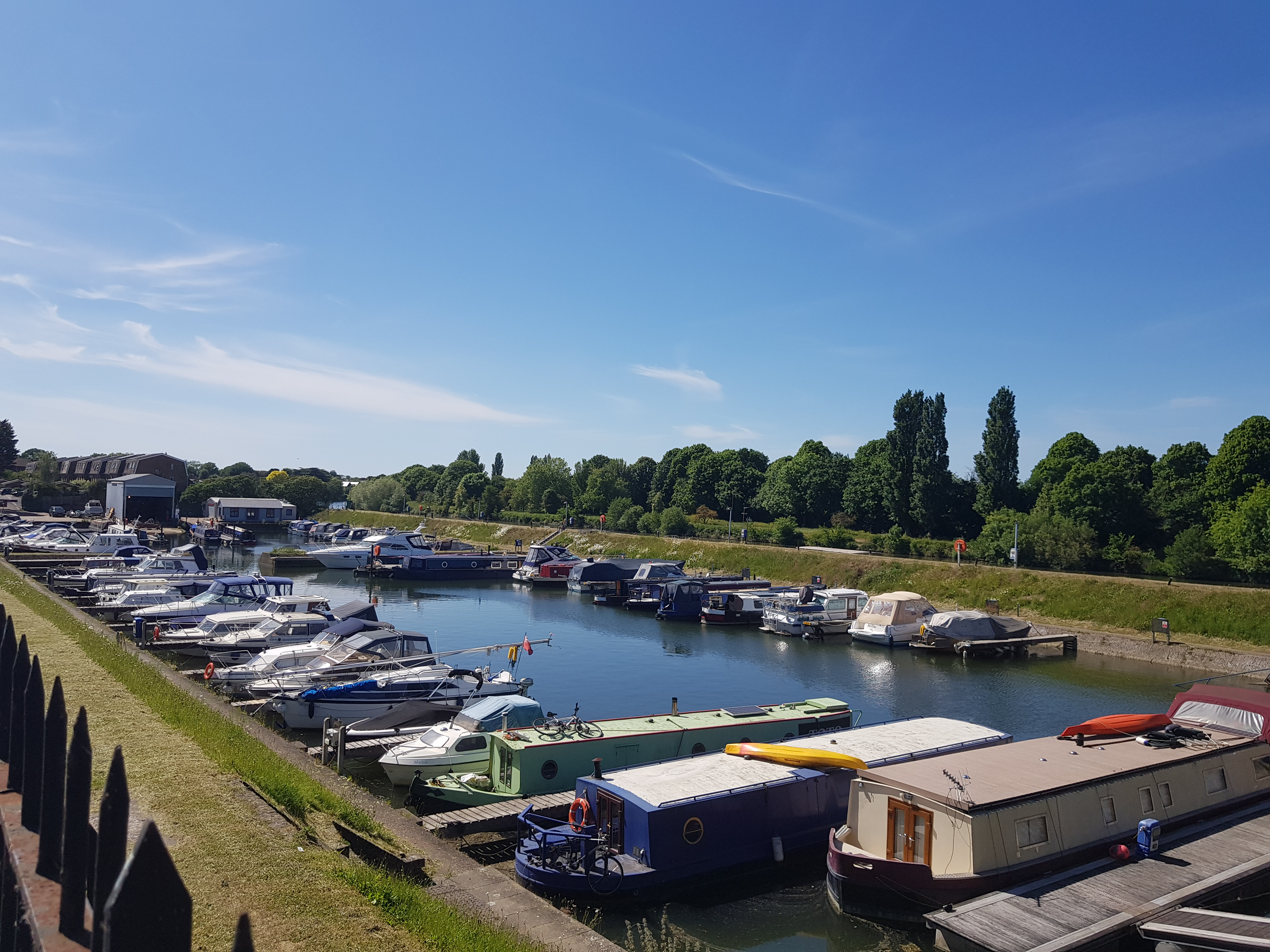 A marina on the riverbank at the western edge of Seething Wells. Currently called the Thames Ditton Marina.